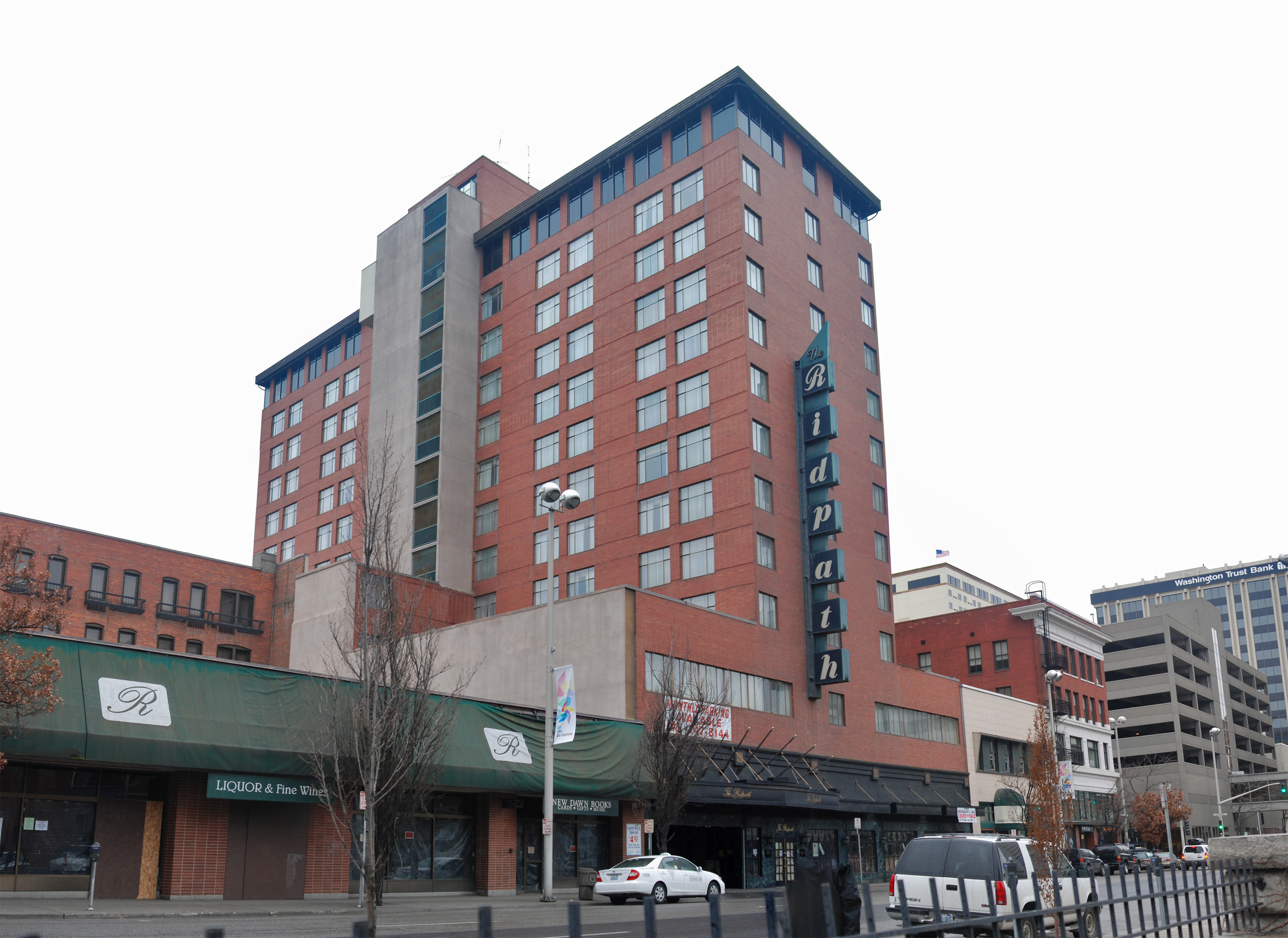 Ridpath Hotel pictured in March 2012.